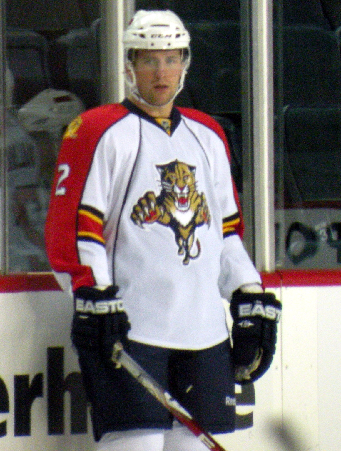 Florda Panthers defenceman Keith Ballard during warm-up prior to a game against the Calgary Flames, in Calgary.